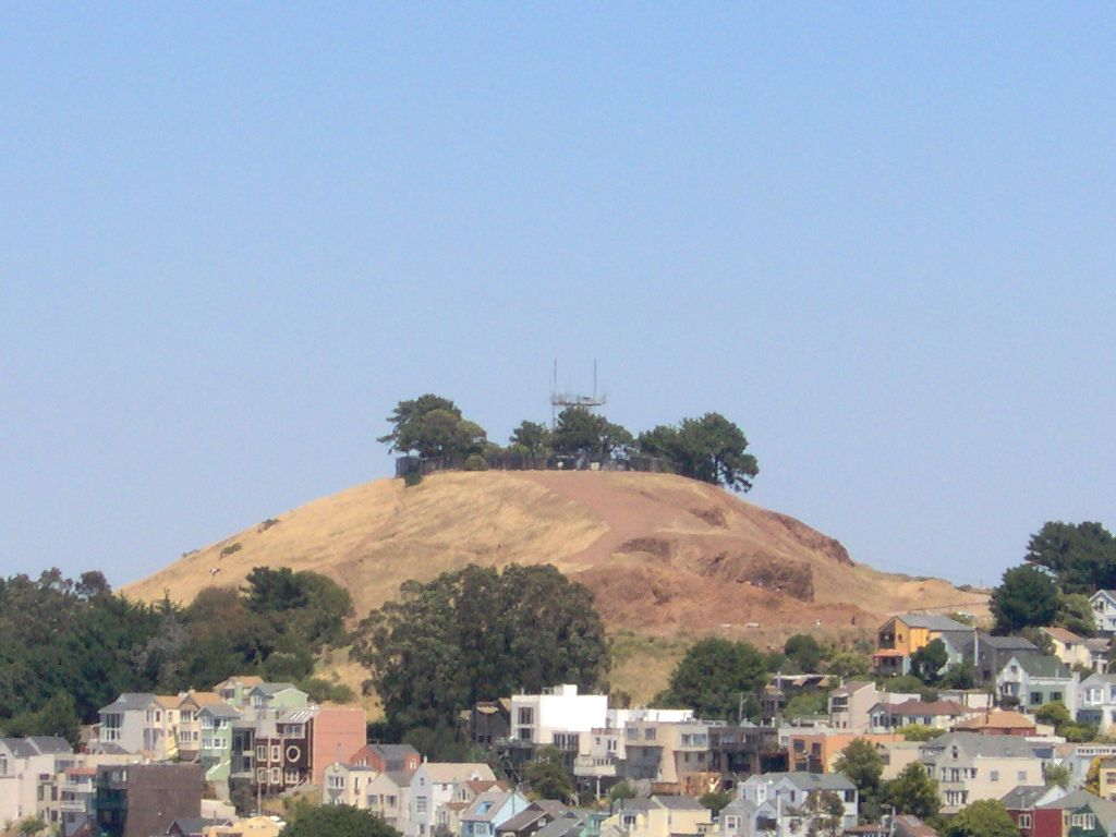 The Bernal Heights hill and microwave tower. Photo taken by myself